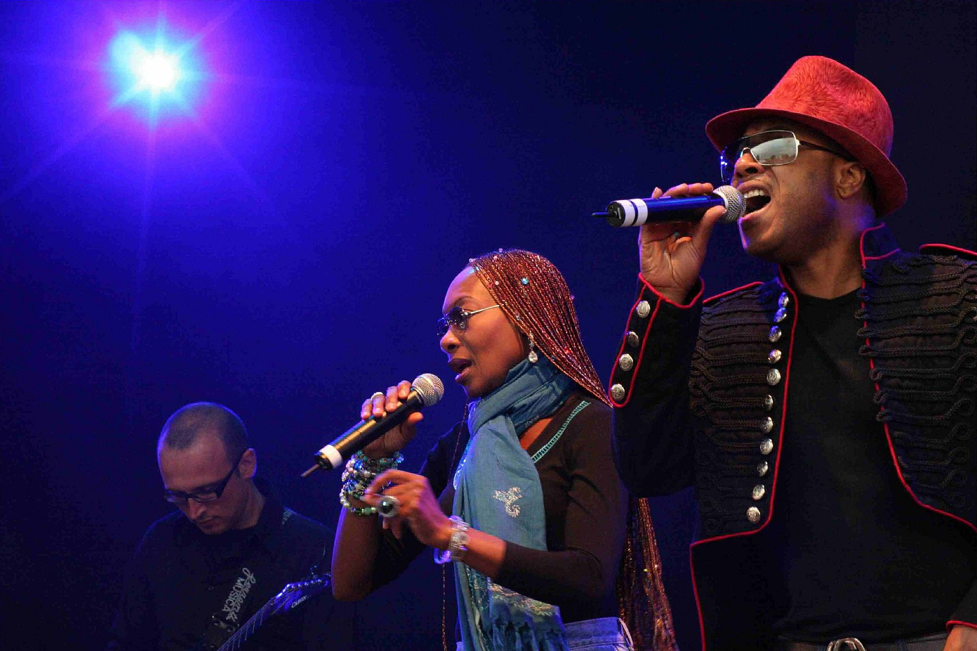 Boney M